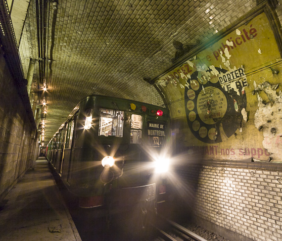 Sprague thomson at the Saint-Martin ghost station under Paris.